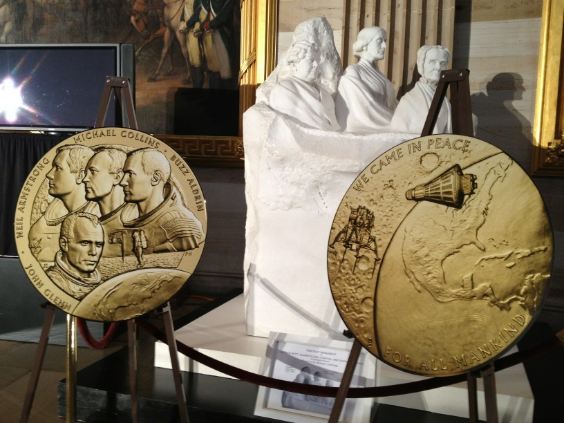 The New Frontier Congressional Gold Medal was presented to NASA astronauts Neil Armstrong, Buzz Aldrin, Michael Collins, and John Glenn by leaders of the US Congress on 16 November 2011.